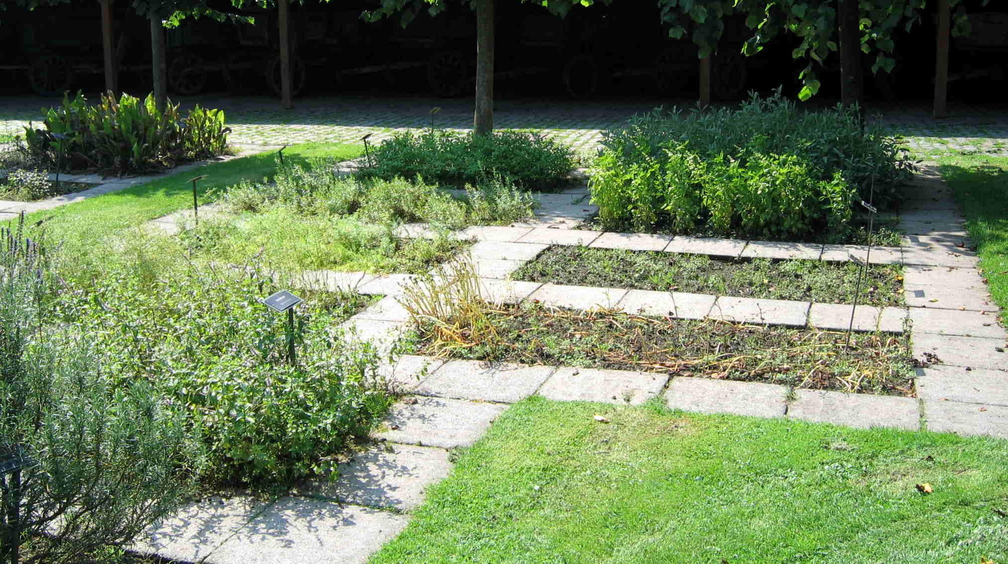 A picture of a herbal patch located at Beernem, Belgium (Domain Lippensgoed-Bulskampveld). The patch is made rectangular with large, slick stones between the rows. Rectangular intermitted, circular patches as well as elevated patches are also frequently made (not shown here). Intermittend rectangular patterns are however preferred for even easier maintenance as weeding.